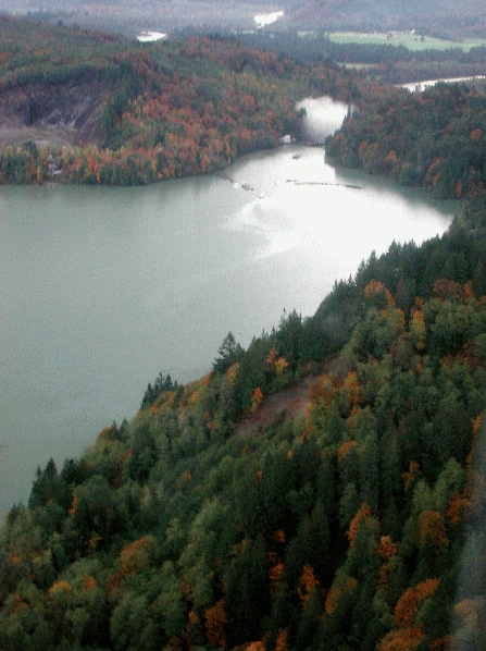 Lake Shannon in Washington state during 2003 floods